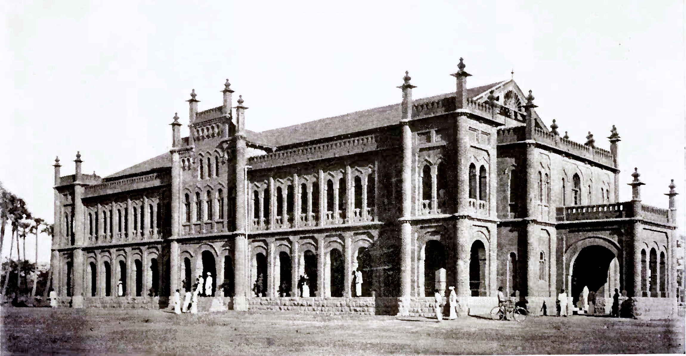 Main Hall (The Hall, then) of The American College, Madurai, India